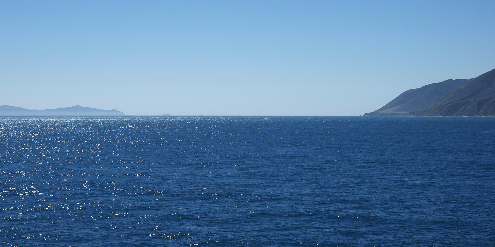 Cook Strait, New Zealand, with Cape Terawhiti (right) and Arapaoa Island (left)